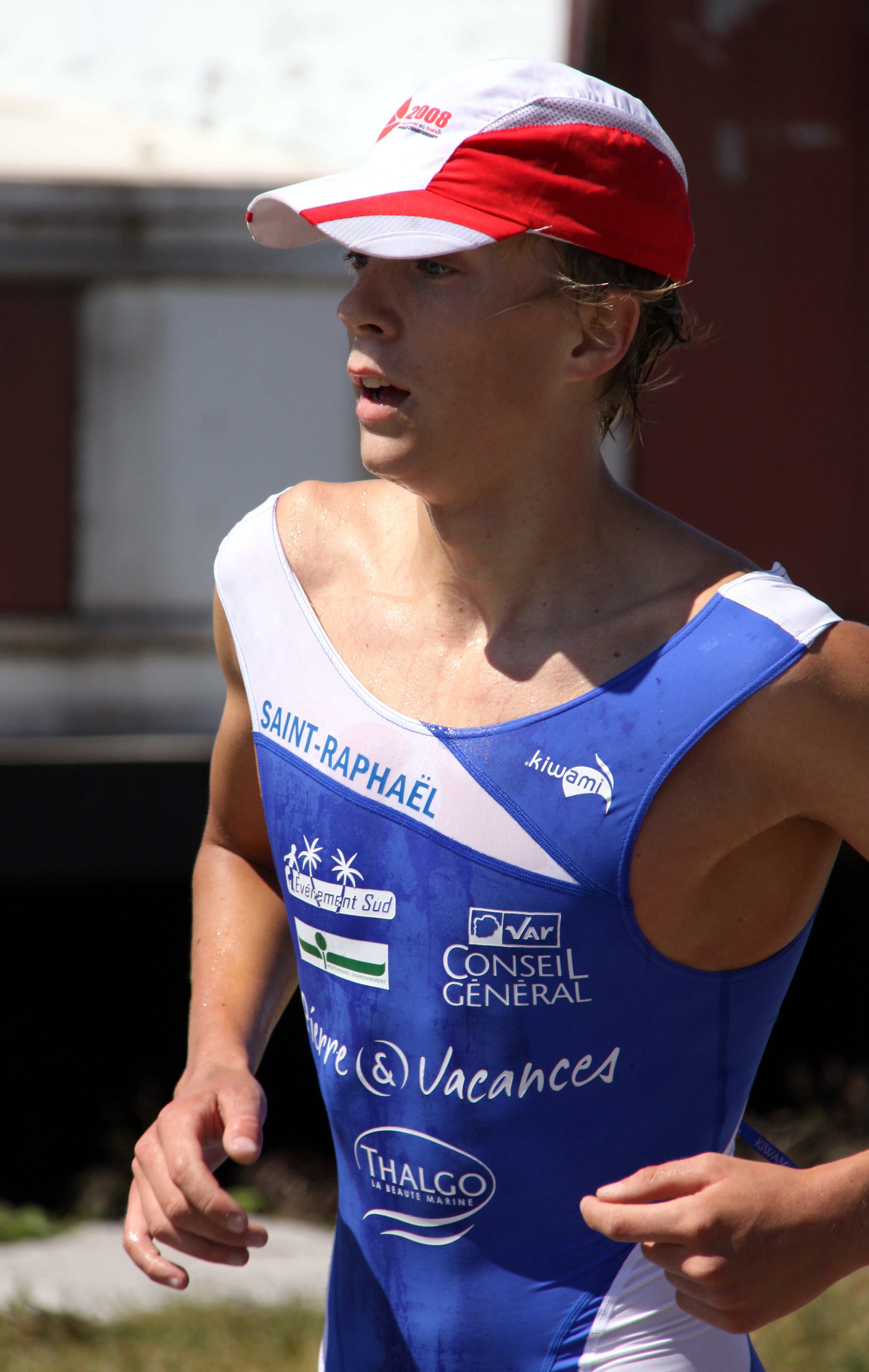 Igor Polyanski at the Triathlon in Dunkerque 2010